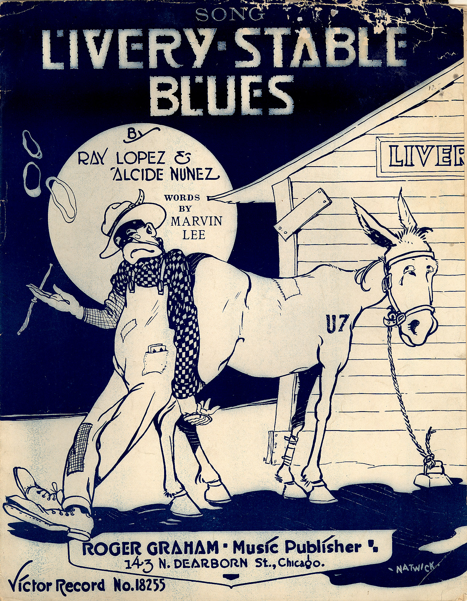 "Livery Stable Blues", 1917 sheet music cover. Credited to early New Orleans jazz musicians Alcide Nunez and Ray Lopez. Second printing with lyrics by Marvin Lee added. The tune was recorded by the Original Dixieland Jass Band; this is generally considered the first jazz recording. The cover art displays minstrel show racial stereotyping. The artwork is by Grim Natwick, later to become a well known animated cartoonist for Fleischer Studios and Walt Disney Studios.